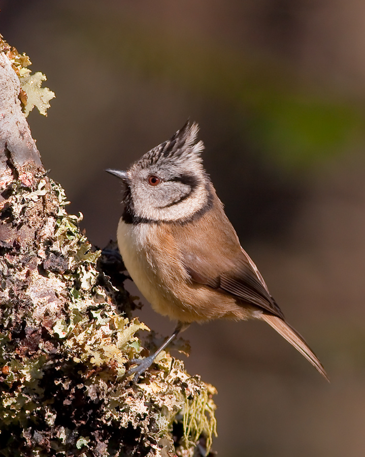 A Crested Tit in Aviemore, Scotland.